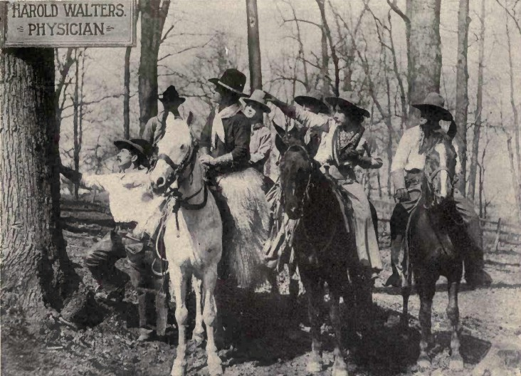 Still from the film In the Great Big West (USA 1911). Still was published in David S. Hulfish, Cyclopedia of Motion-Picture Work (1914).